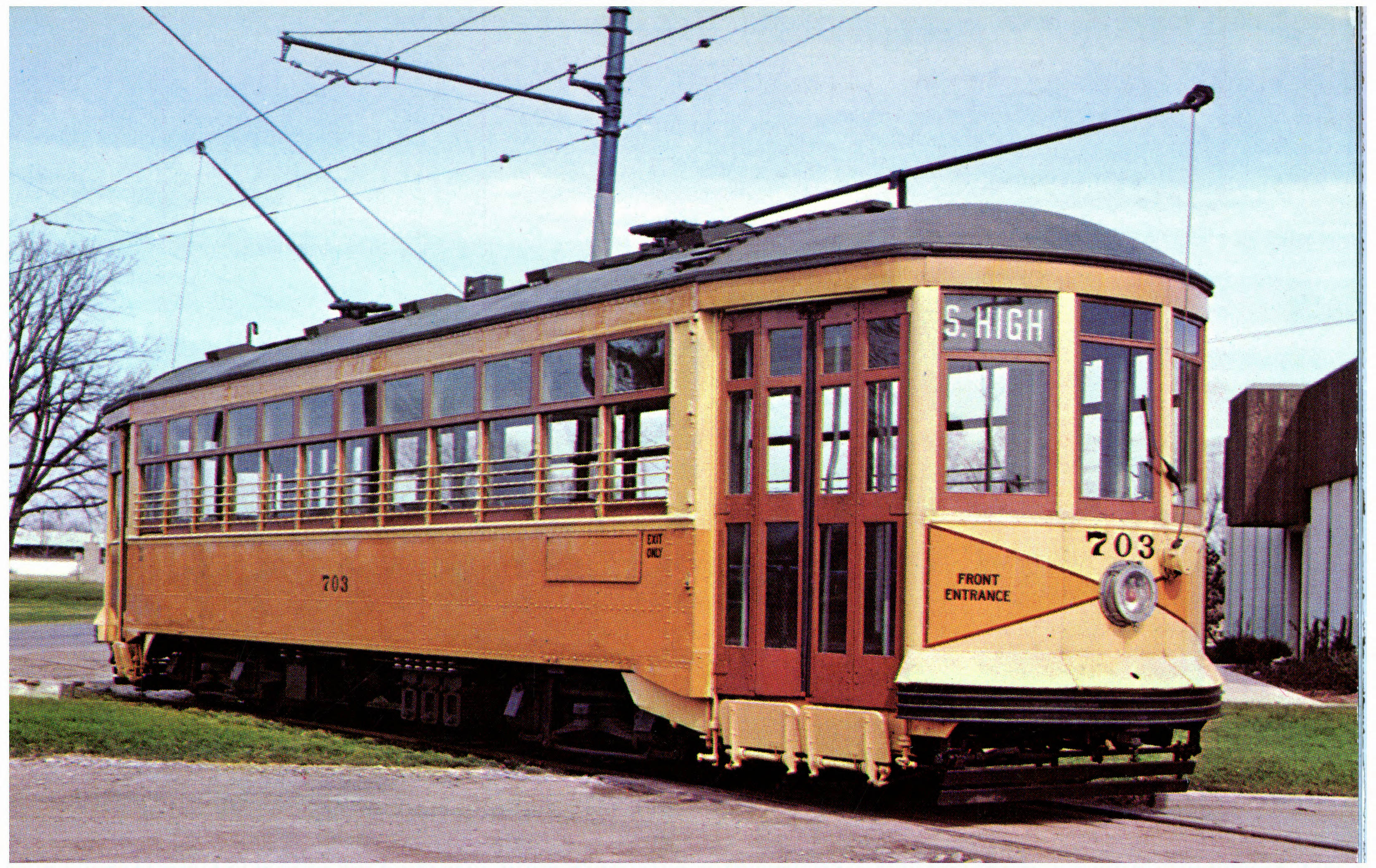 "Ex Columbus, Ohio streetcar #703, a 1926 series Kuhlman car which operated in Columbus until September 1948. #703 was restored by the Ohio Railway Museum in 1973. This trolley and other pieces of railway equipment are in operation Sunday afternoons from April until October, and Saturday afternoons June through August."